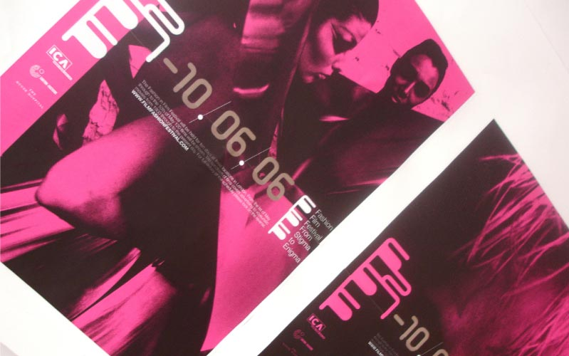 Posters for the Fashion in Film festival